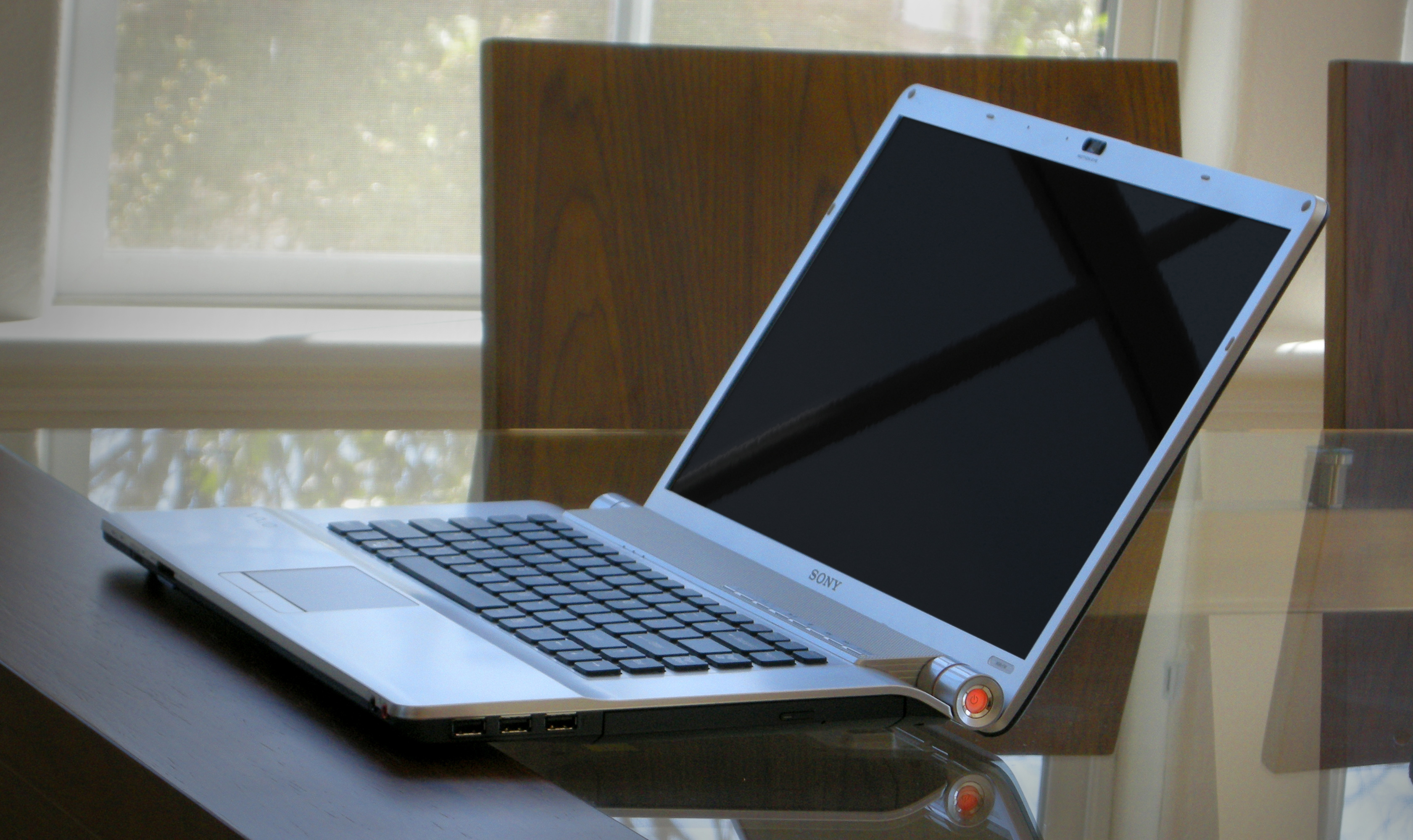 Sony VAIO VGN-FW590 laptop, in sleep mode (as indicated by an orange pulsating light, seen on the side of the laptop).